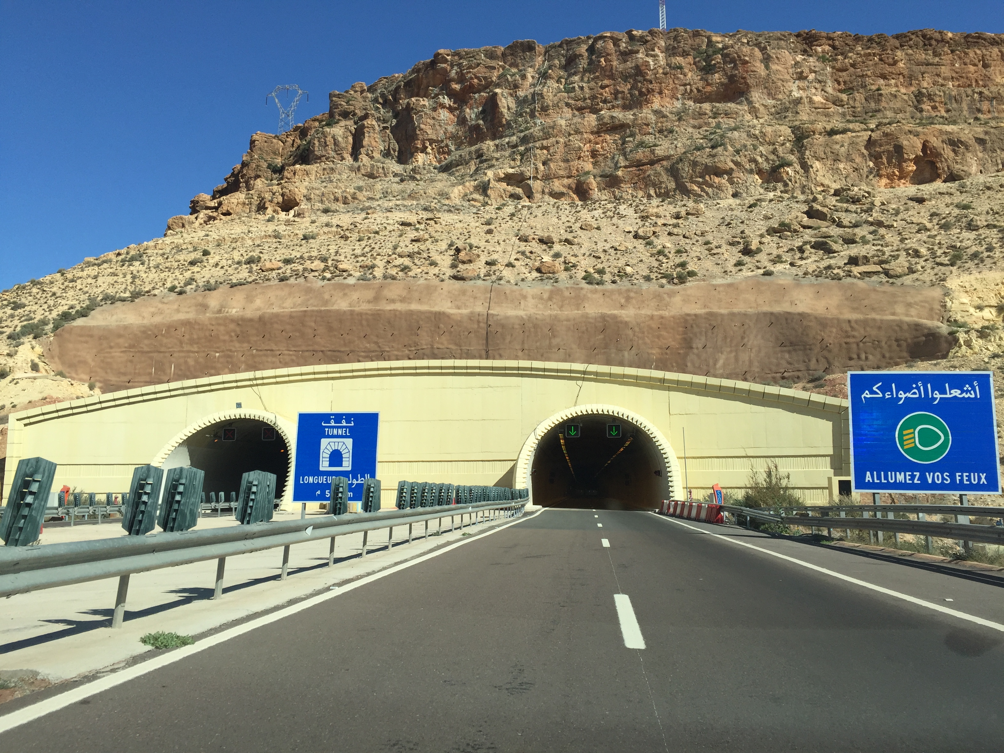 Tunnel of Zaouiat Aït Mellal (Moroccan A7 Expressway)